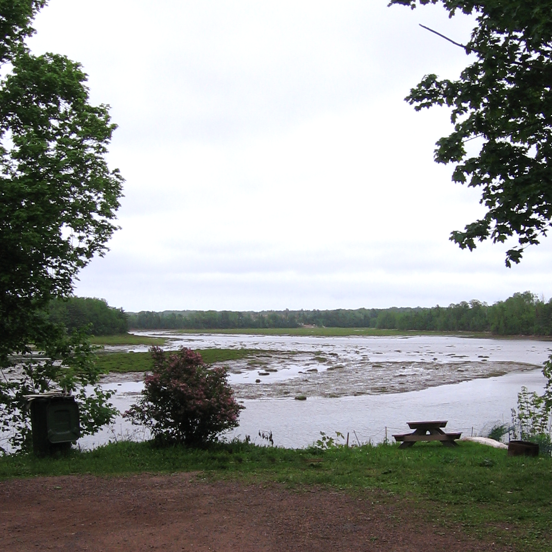 Photo of River John, NS at low tide